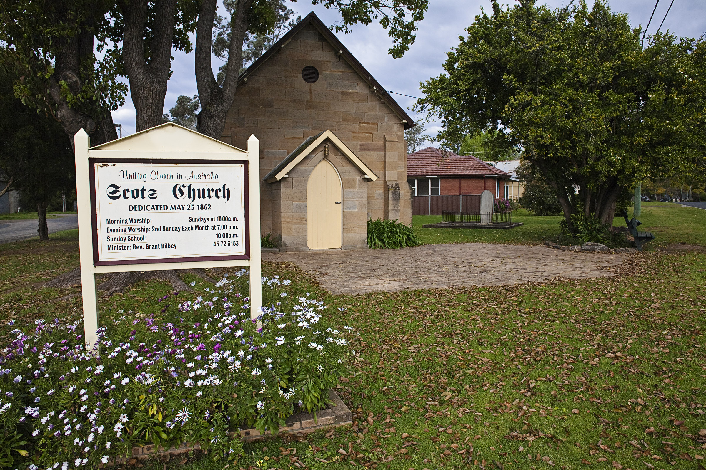 Scots Presbyterian (Uniting) church, Pitt Town, NSW, Australia.